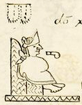 Don Cristóbal de Guzmán, colonial governor of Tenochtitlan, from Historia del Imperio Azteco.